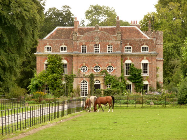 Biddesden - Horse and House A fine country house in the hamlet of Biddesdon.